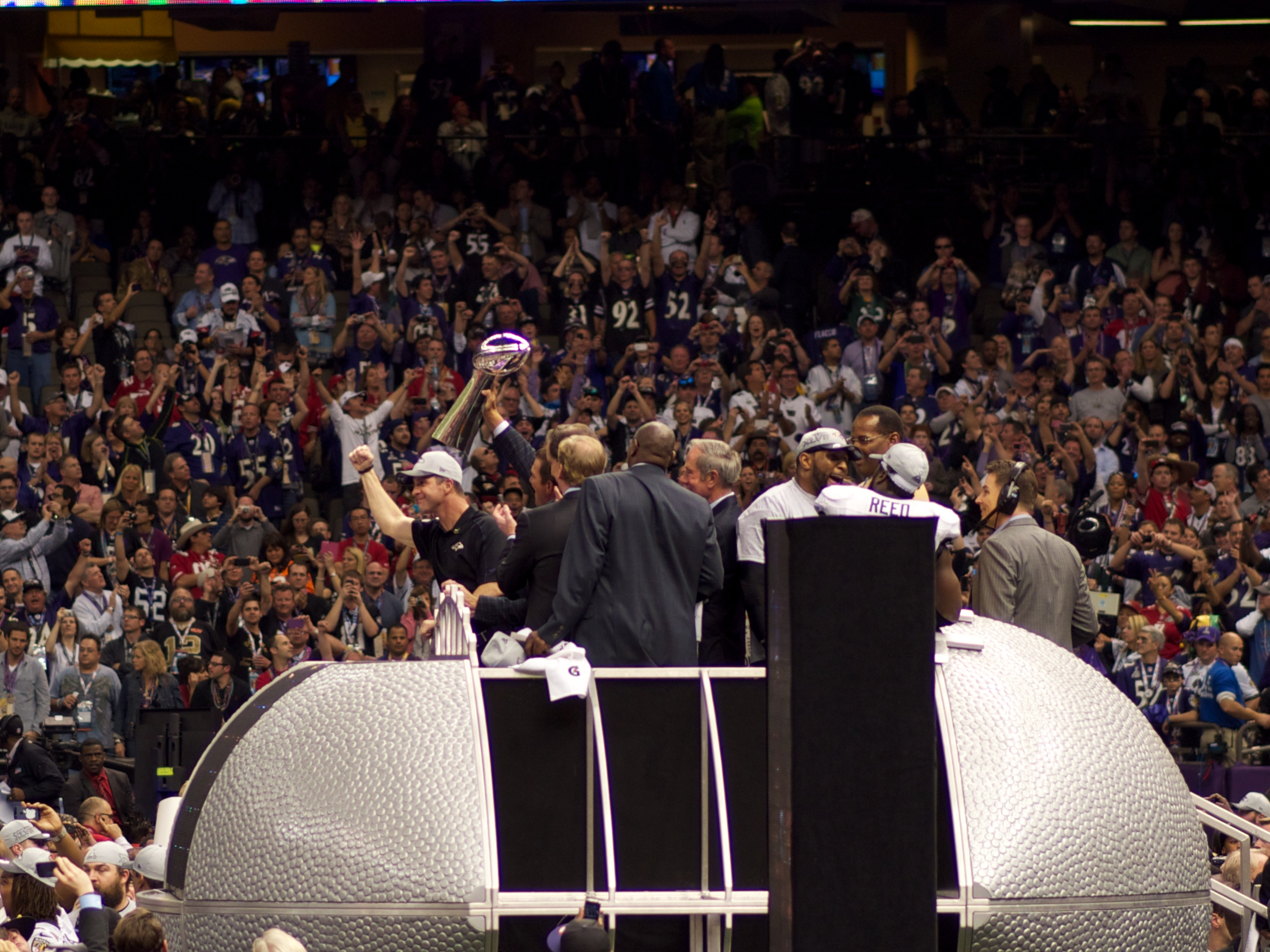 John Harbaugh, Steve Bischotti, Ed Reed and Ray Lewis during the Lombardi Trophy following Super Bowl XLVII